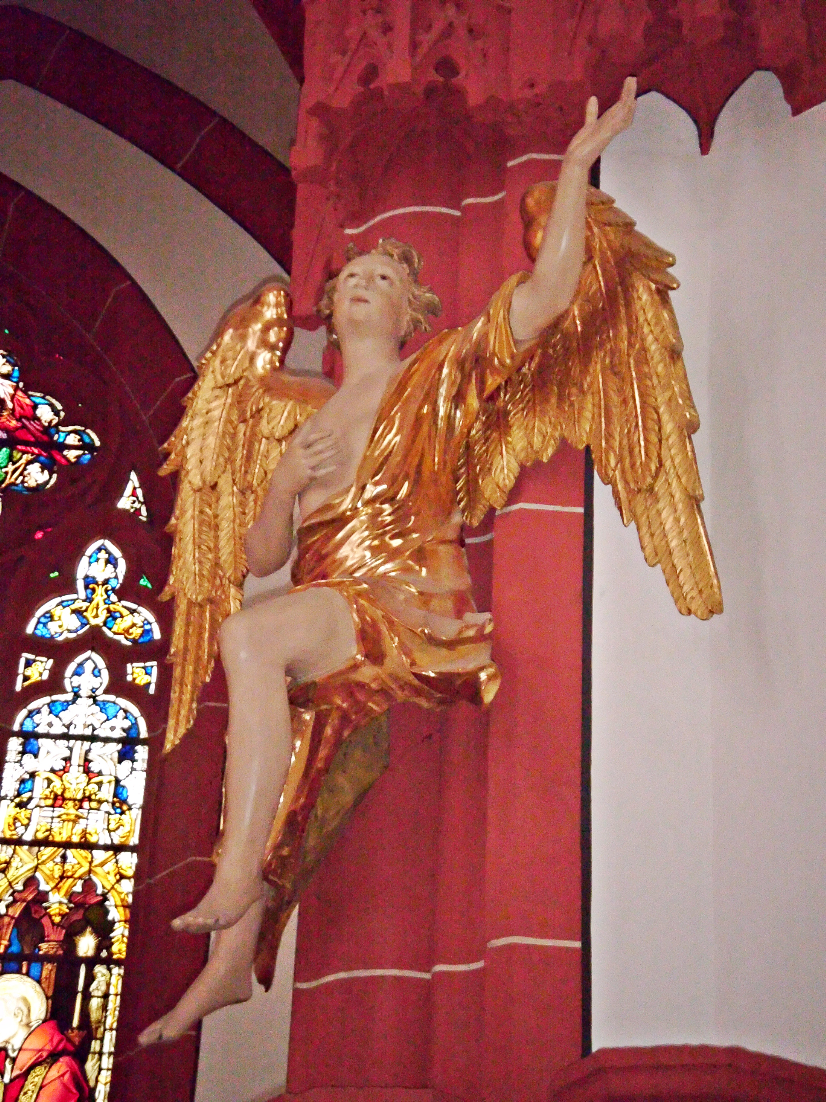 Stiftskirche Neustadt/Weinstraße, kath. Teil, Engel vom ehem. Hochaltar von St. Ulrich, Deidesheim, Künstler: Georg Friedrich Schmiegd (1688-1753)